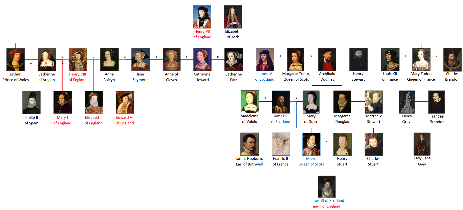 Family tree of the Tudor Dynasty in England.